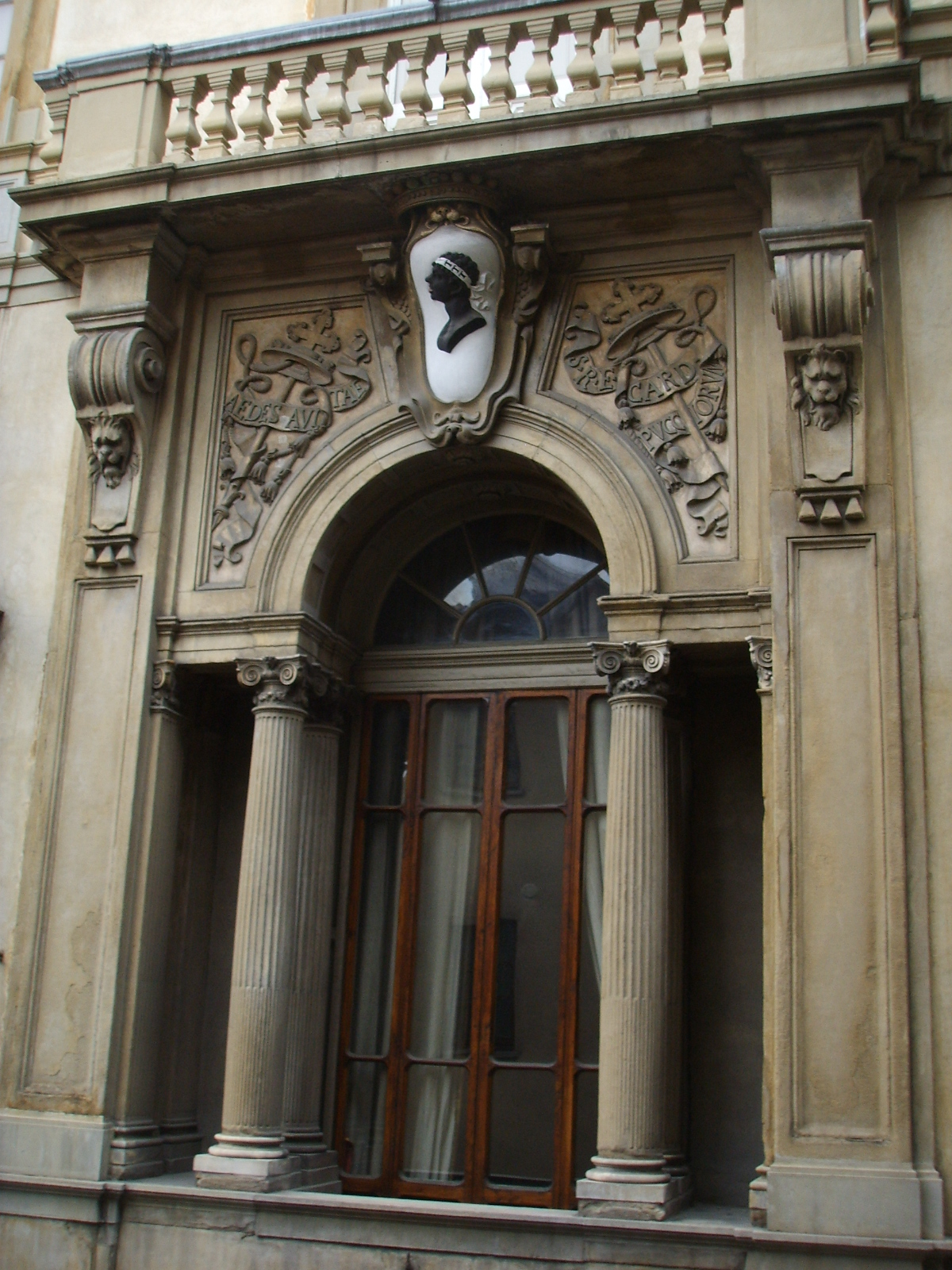 Loggia with serliana window and balcony (by Bartolomeo Ammannati) upon Palazzo Pucci palace in Florence, Italy.